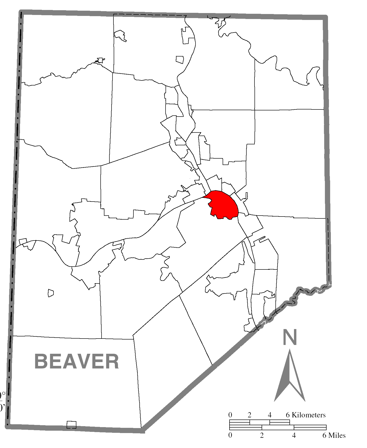 A map of Beaver County showing Monaca, Pennsylvania (alternate) highlighted on the map.